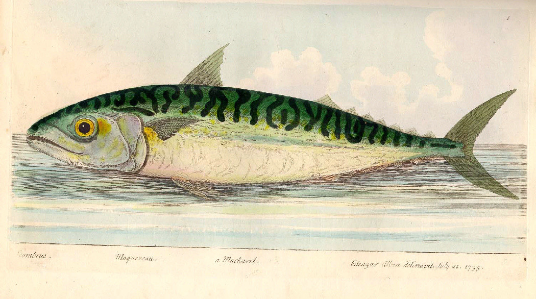 Scombrus; Maguereau; a Mackarel Eleazar Albin delinavit July 21, 1735 Subject: Mackerels Tag: Fish